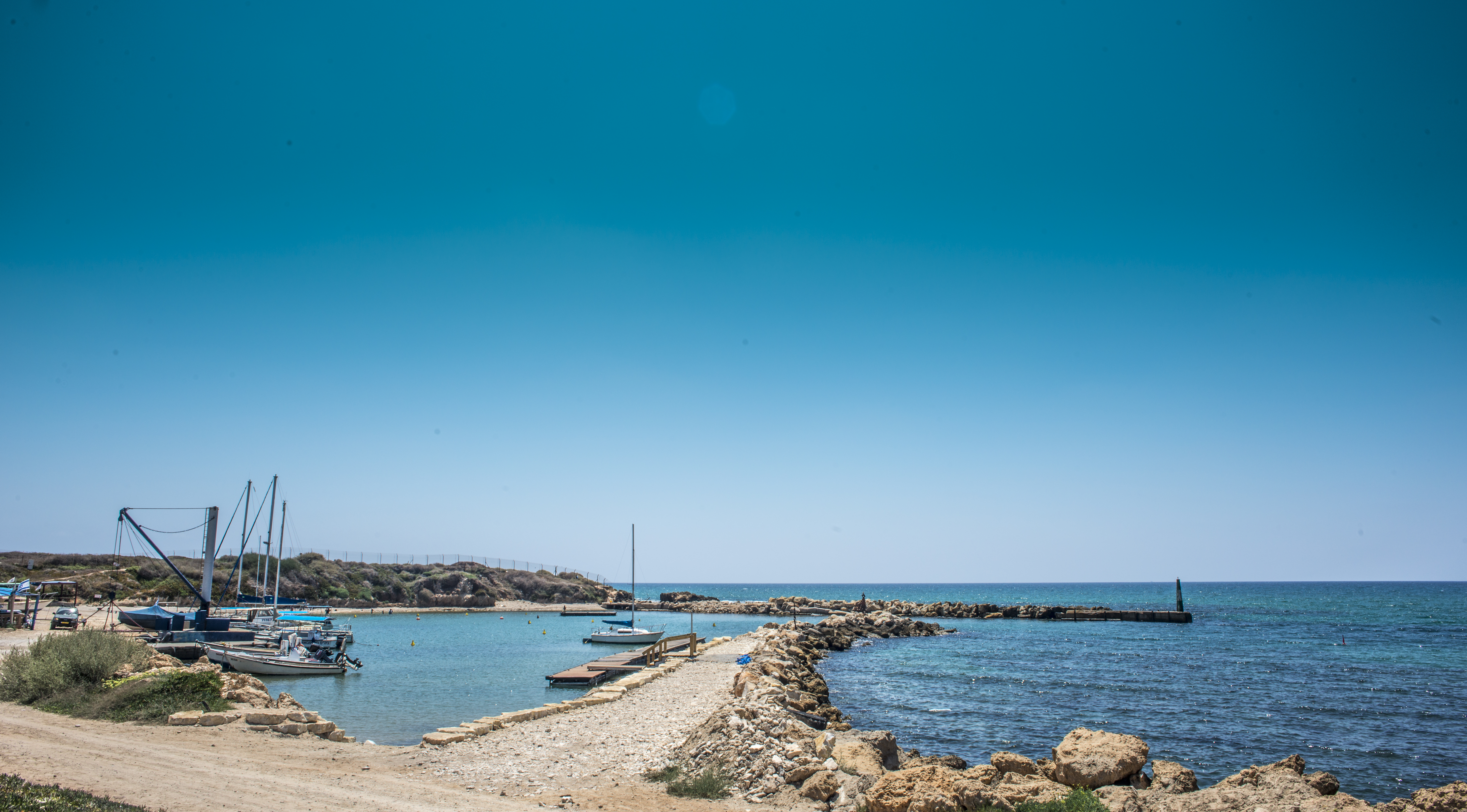 michmoret